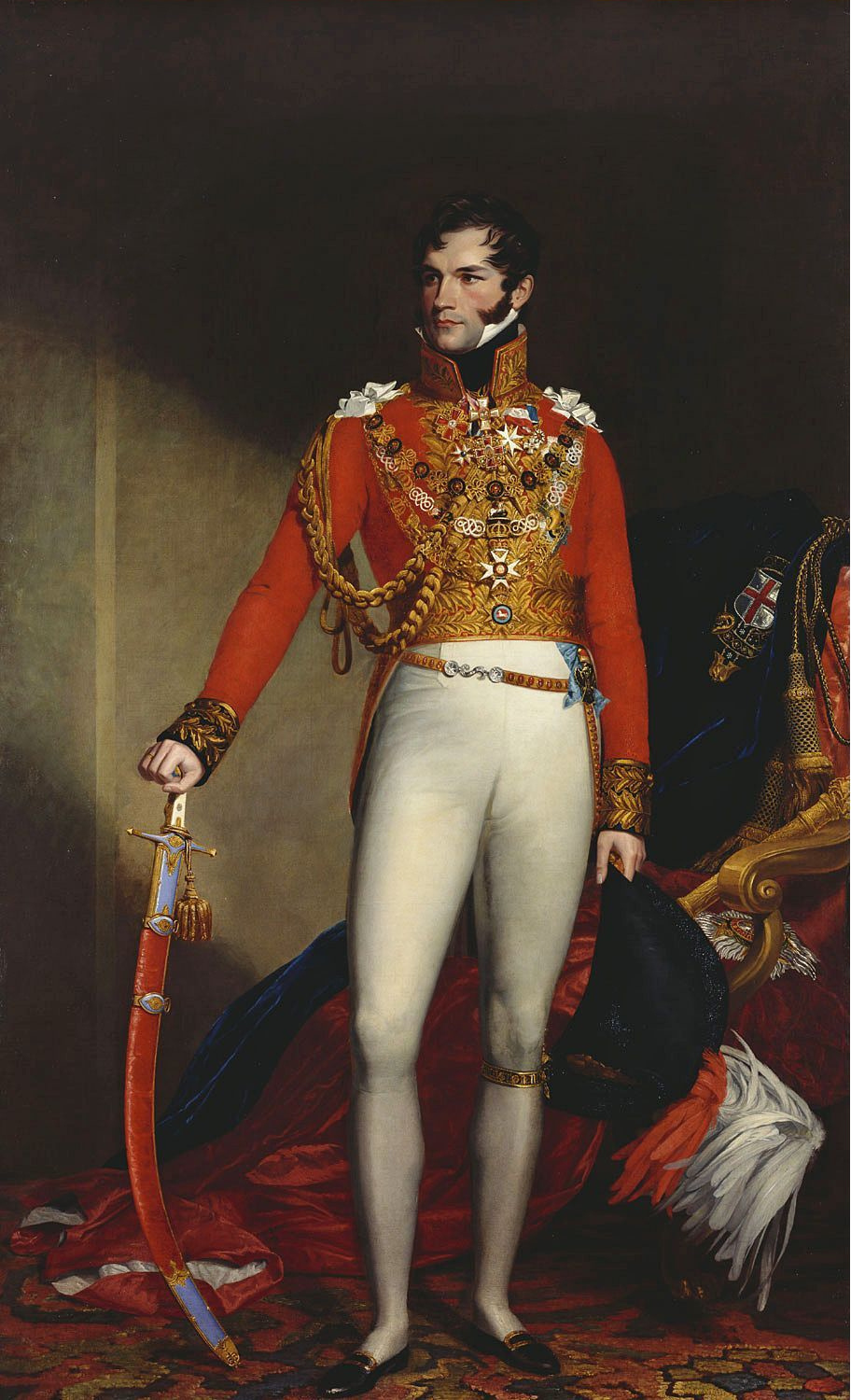 Portrait of Leopold I, King of the Belgians